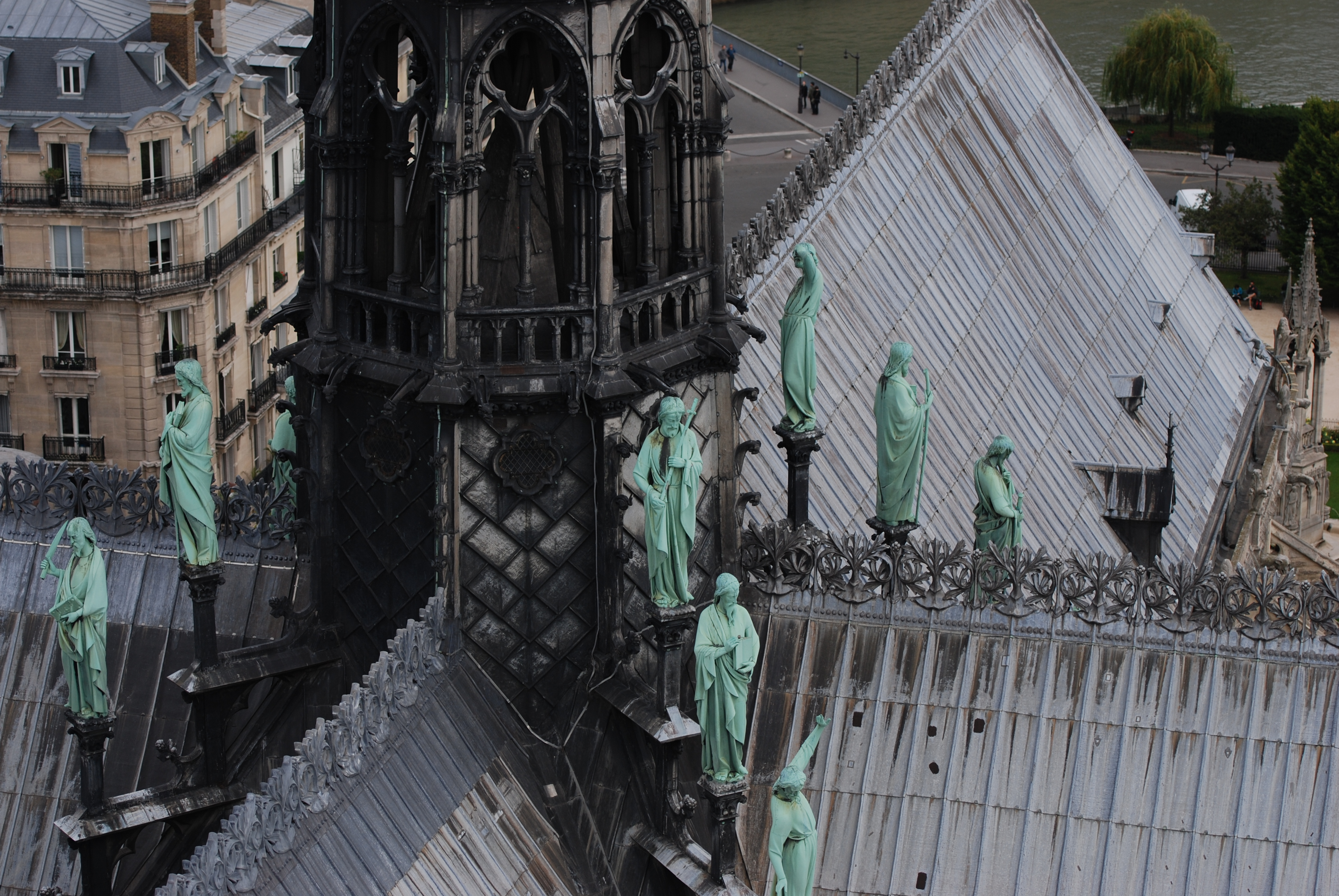 Apostles on the roof of Notre-Dame de Paris.